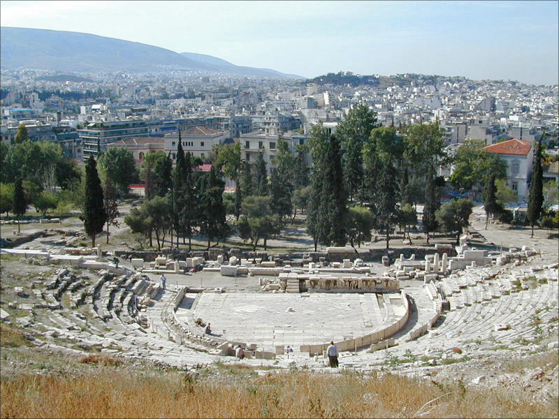 Dionysos Theatre, Makrygianni, Athens.